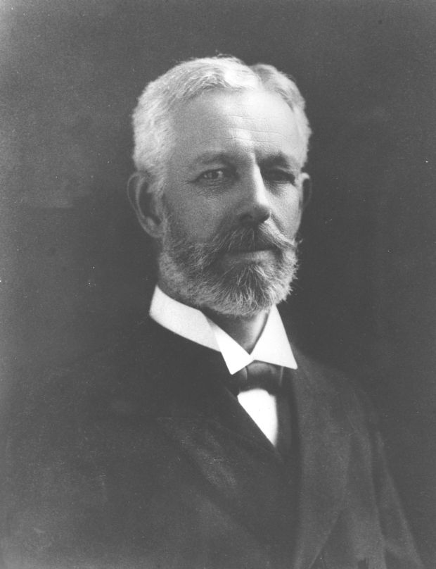 Joseph C. Rowell 1919